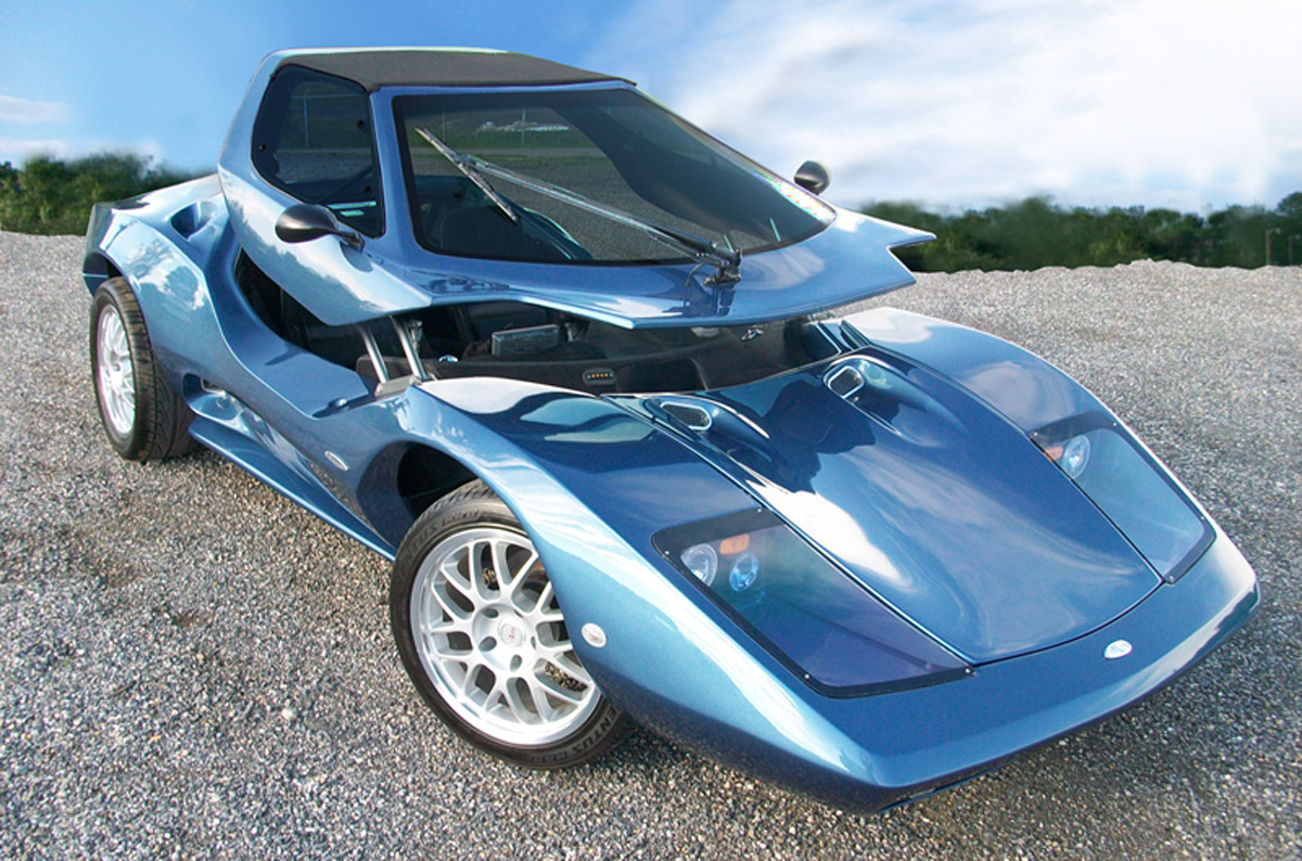 Sterling car 1972 to 2011, Sterling RX built by David Aliberti, cars were originally built in the uk and called the NOVA